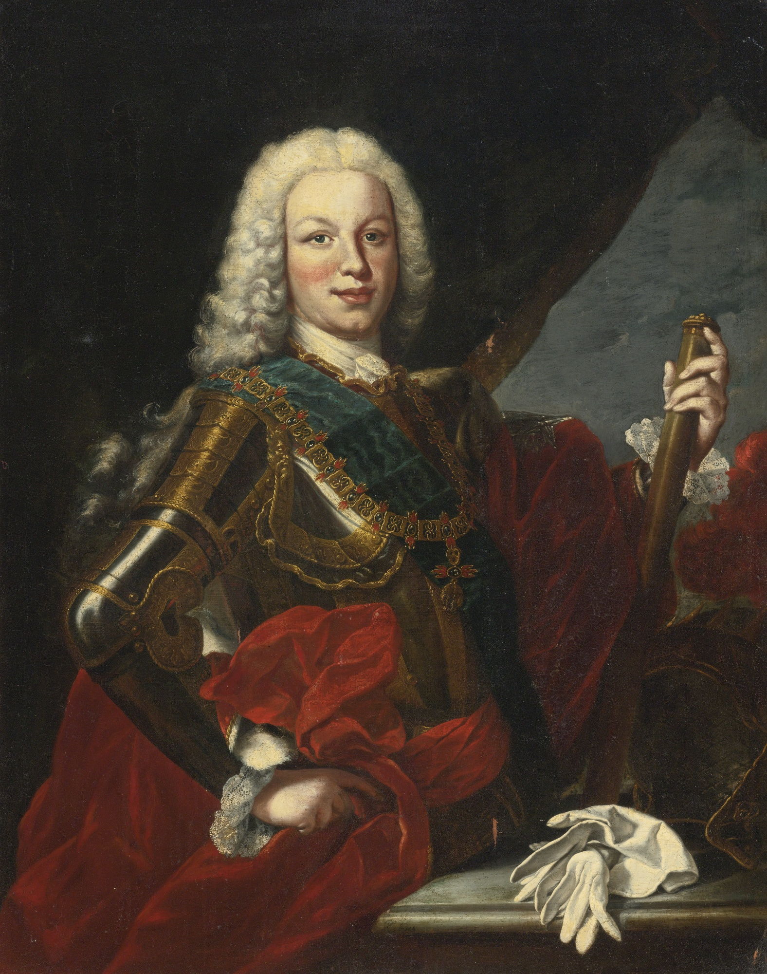 Portrait of King Ferdinand VI of Spain (1713-1759), half length, dressed in armour.